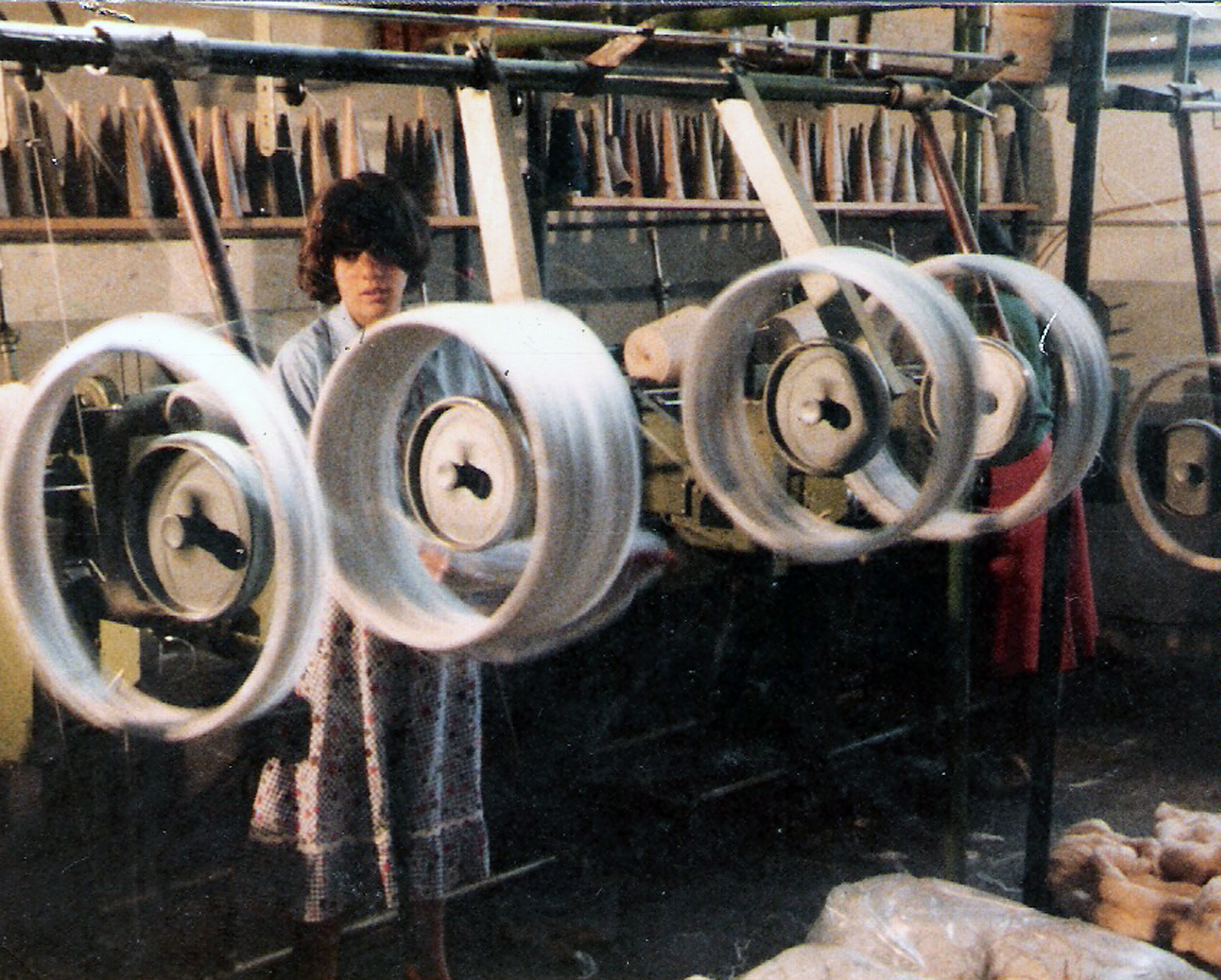 Girl working at the loom